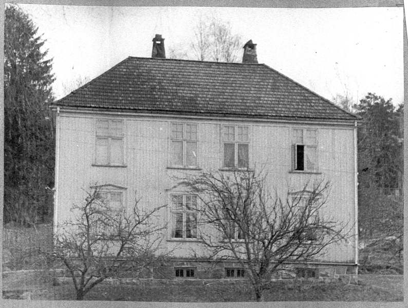 Picture of Greverud Laererbolig, Oppegaard County, Norway